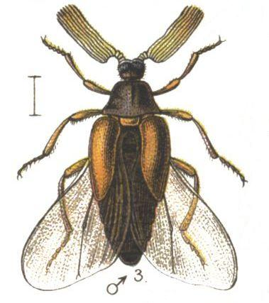 Rhipidius pectinicornis